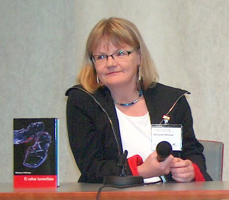 Finnish crime writer Marianne Peltomaa at The Helsinki Book Fair 2005